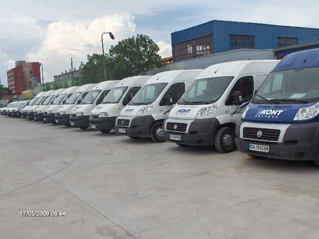 Автопарк на Еконт Експрес